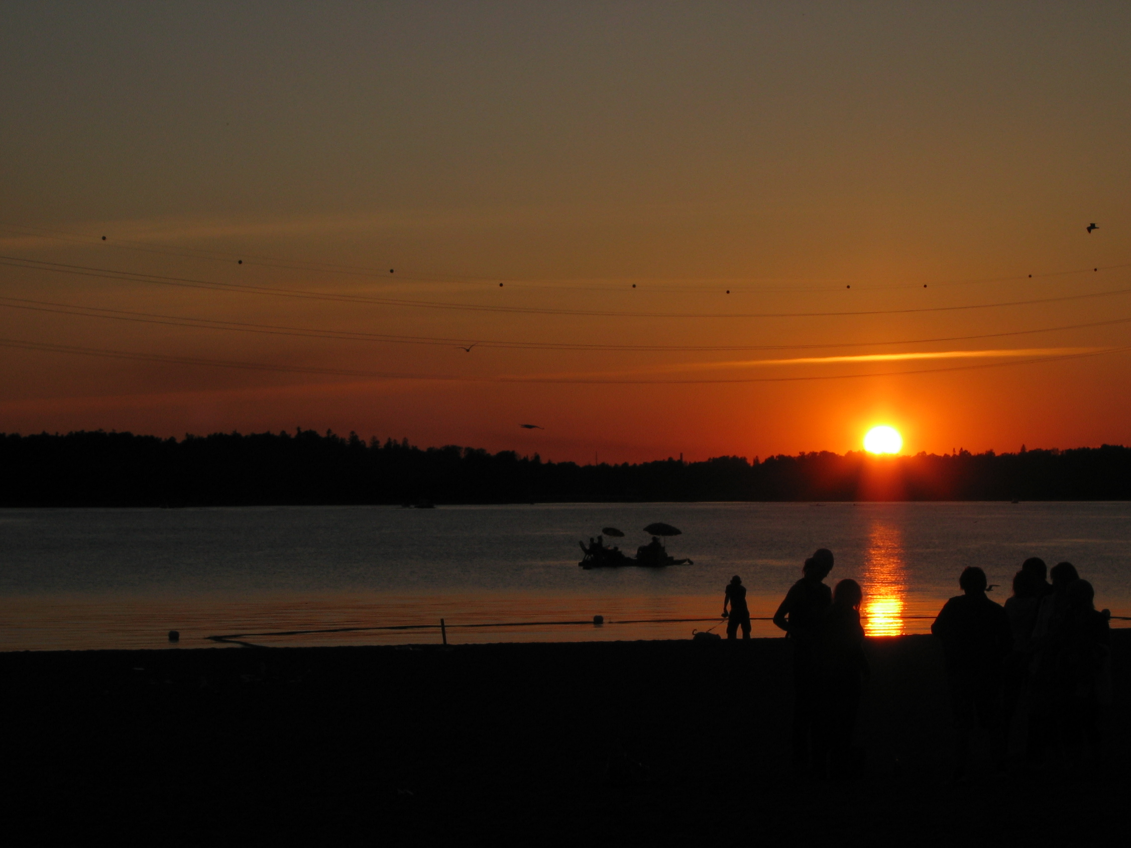 Midsummer in Hietaniemi, Helsinki, Finland